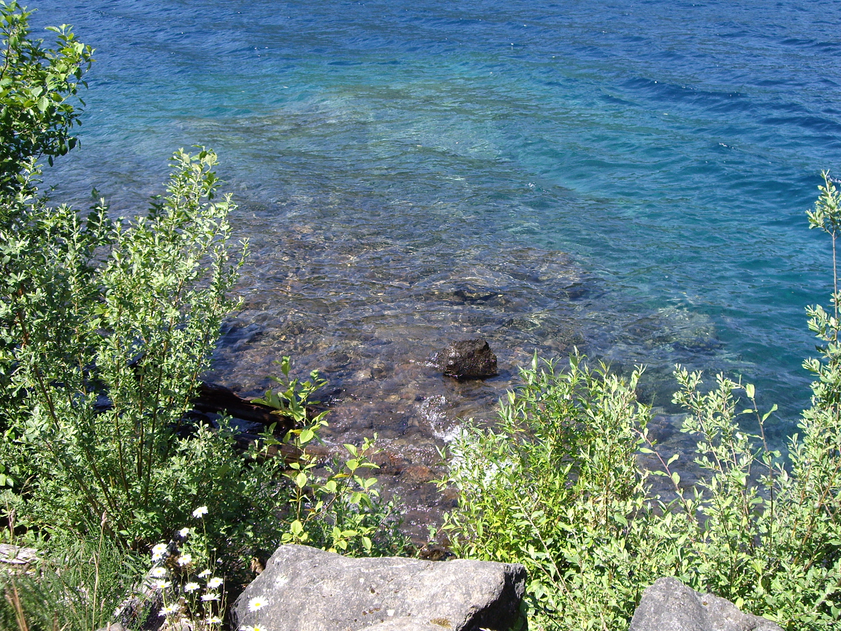 Closeup of Lake Crescent water. Photo by User:Jon Stockton.